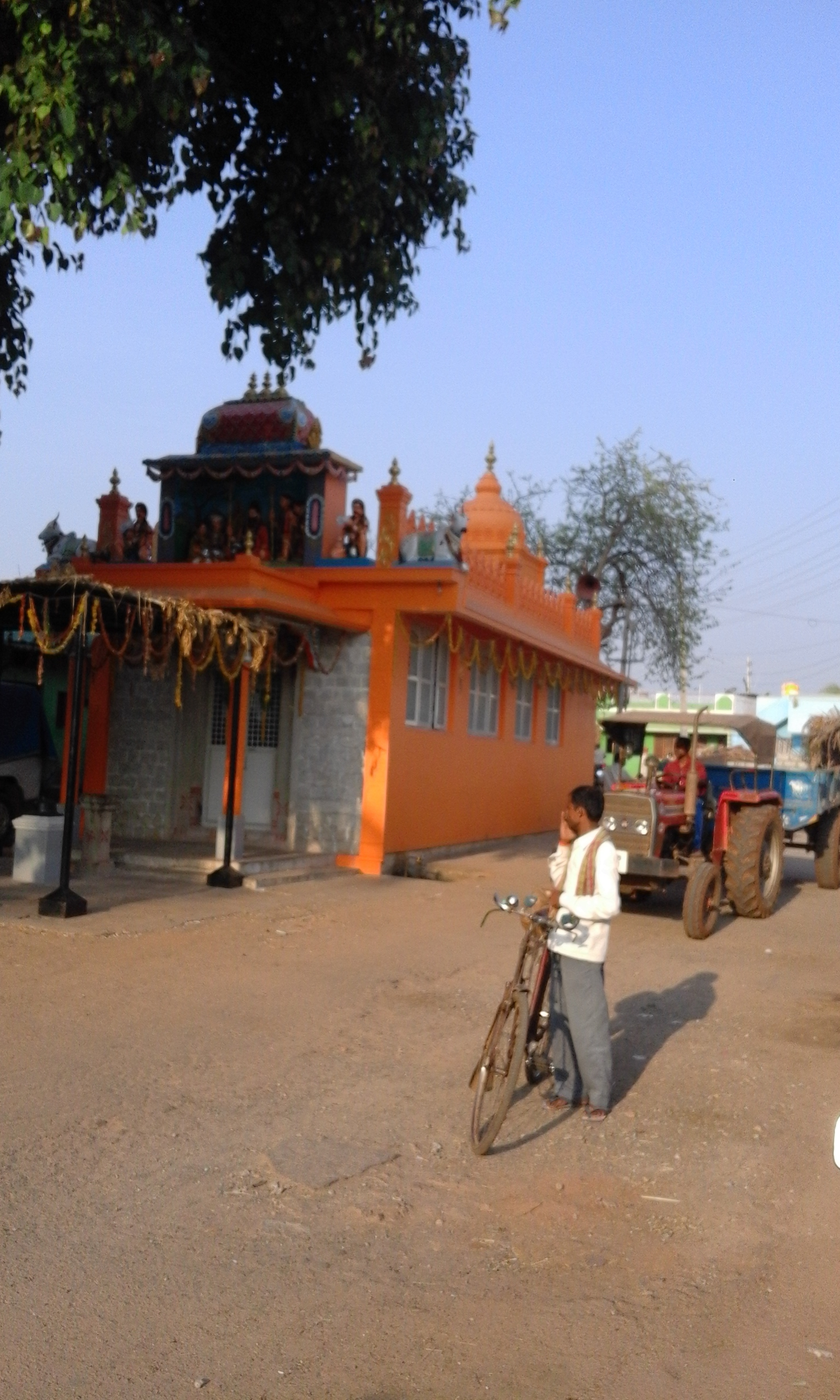 Lingam Budhi Lake, Mysore, India.